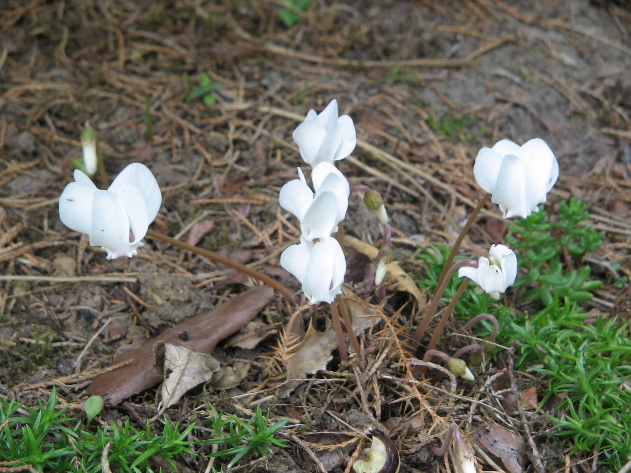 Cyclamen hederifolium 'Album'